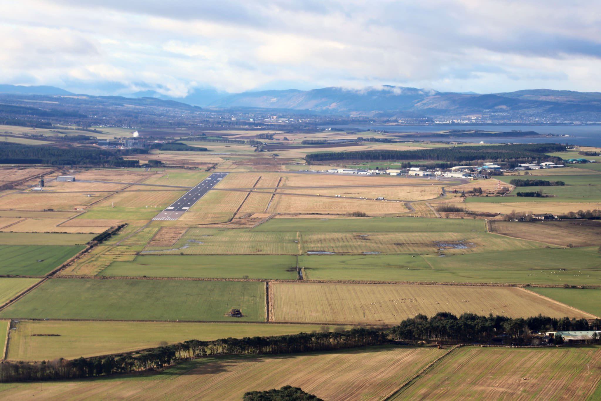 Inverness Airport as viewed from Runway 23